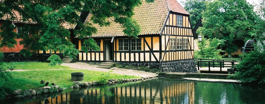 The Old Town, Århus, Denmark